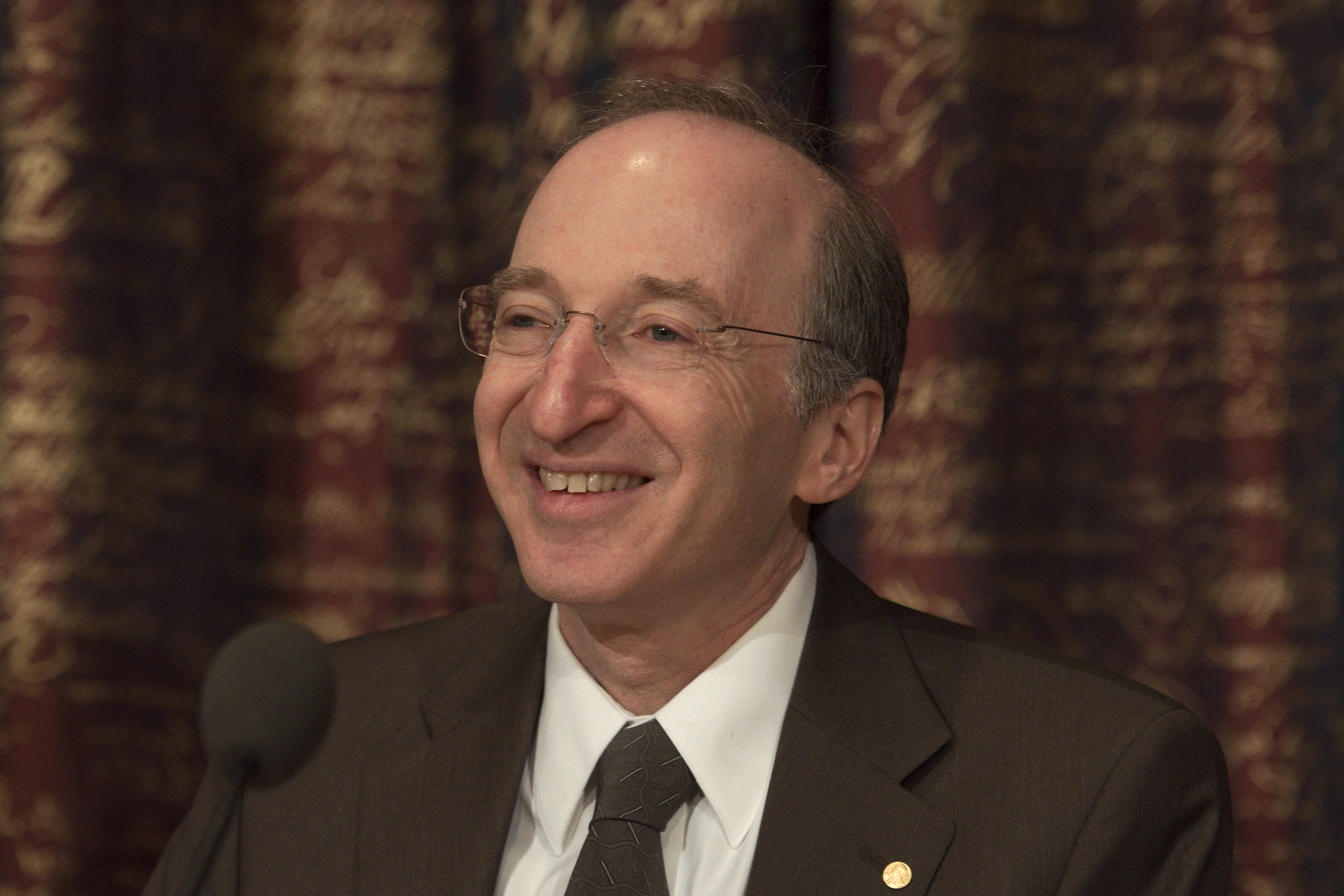 Nobel Prize 2011, press conference with the laureates of the Nobel prizes in chemistry and physics and the memorial prize in economic sciences at the Royal Swedish Academy of Sciences.